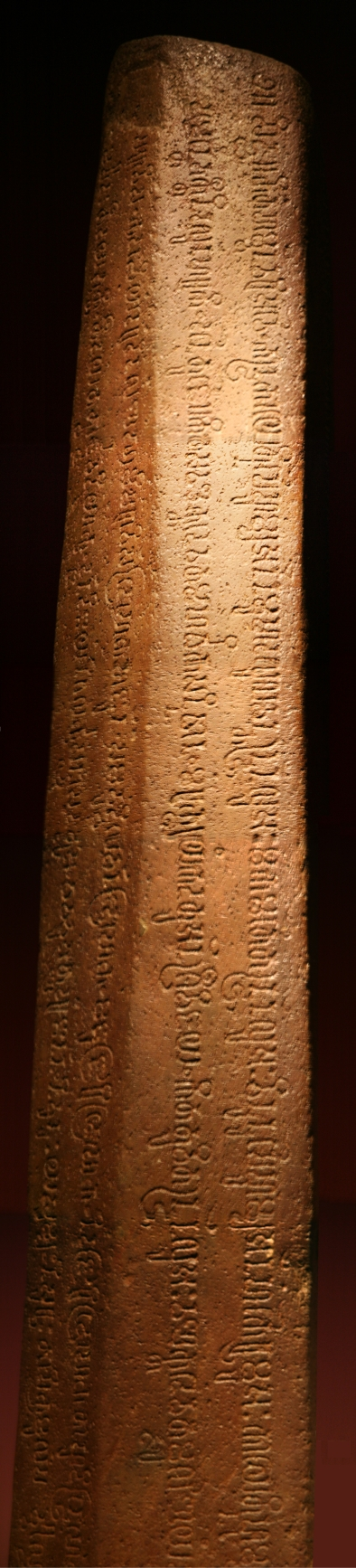 Prasasti Kota Kapur: Pallava inscribed column (dated 686 AD.), concerning Sriwijaya, found on the island Bangka, Indonesia (Stitch; photo's made in Museum Volkenkunde, Leiden. Column property of Museum Nasional Indonesia, Jakarta, item-no.: MNI D90)